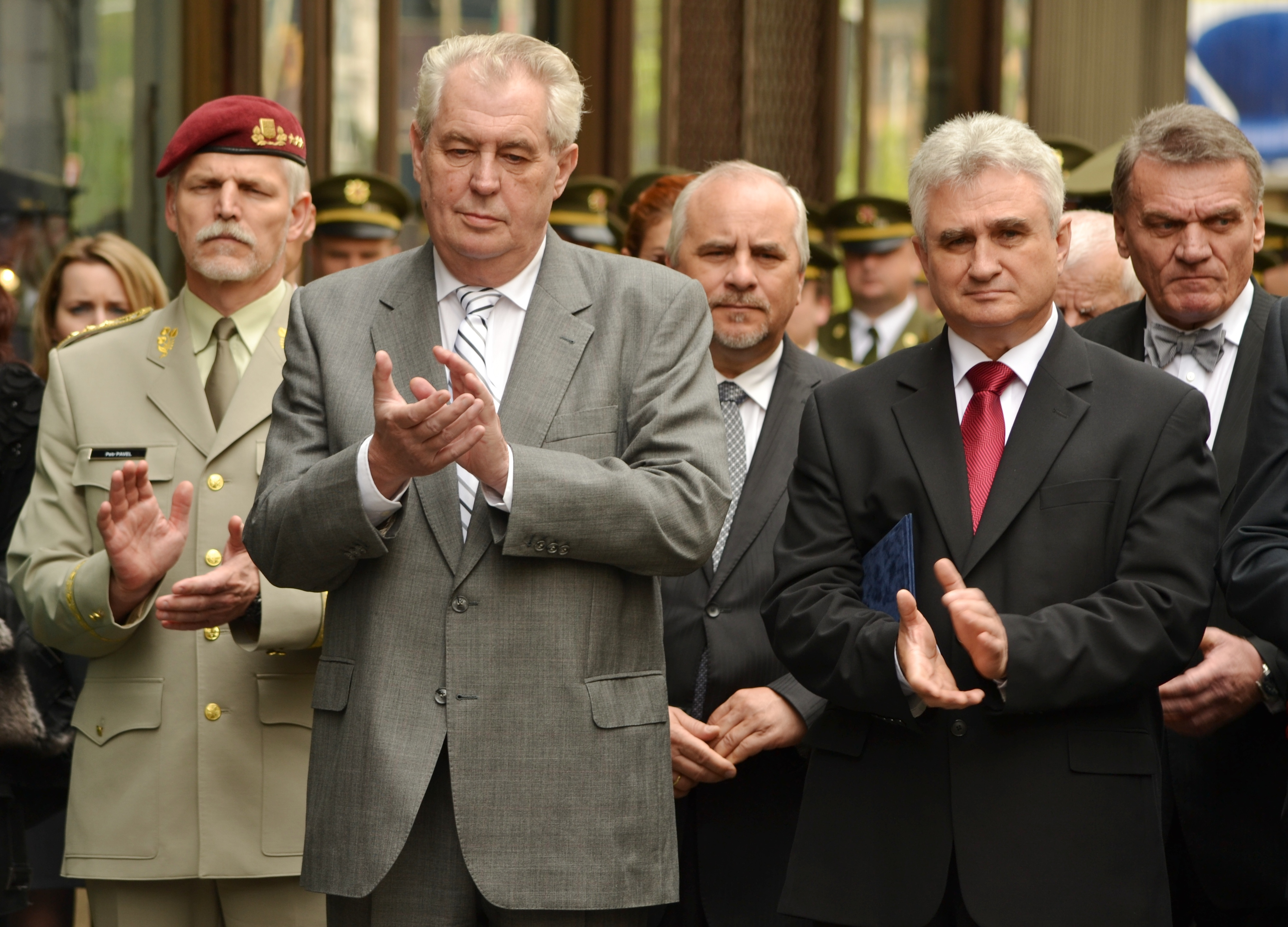 From left: Lieutenant General Petr Pavel, the Chief of the General Staff of the Armed Forces of the Czech Republic; Miloš Zeman, President of the Czech Republic; H.E. Peter Brňo, Ambassador of Slovak Republic in the Czech Republic; Milan Štěch, President of the Senate of the Czech Republic and Bohuslav Svoboda, Mayor of Prague